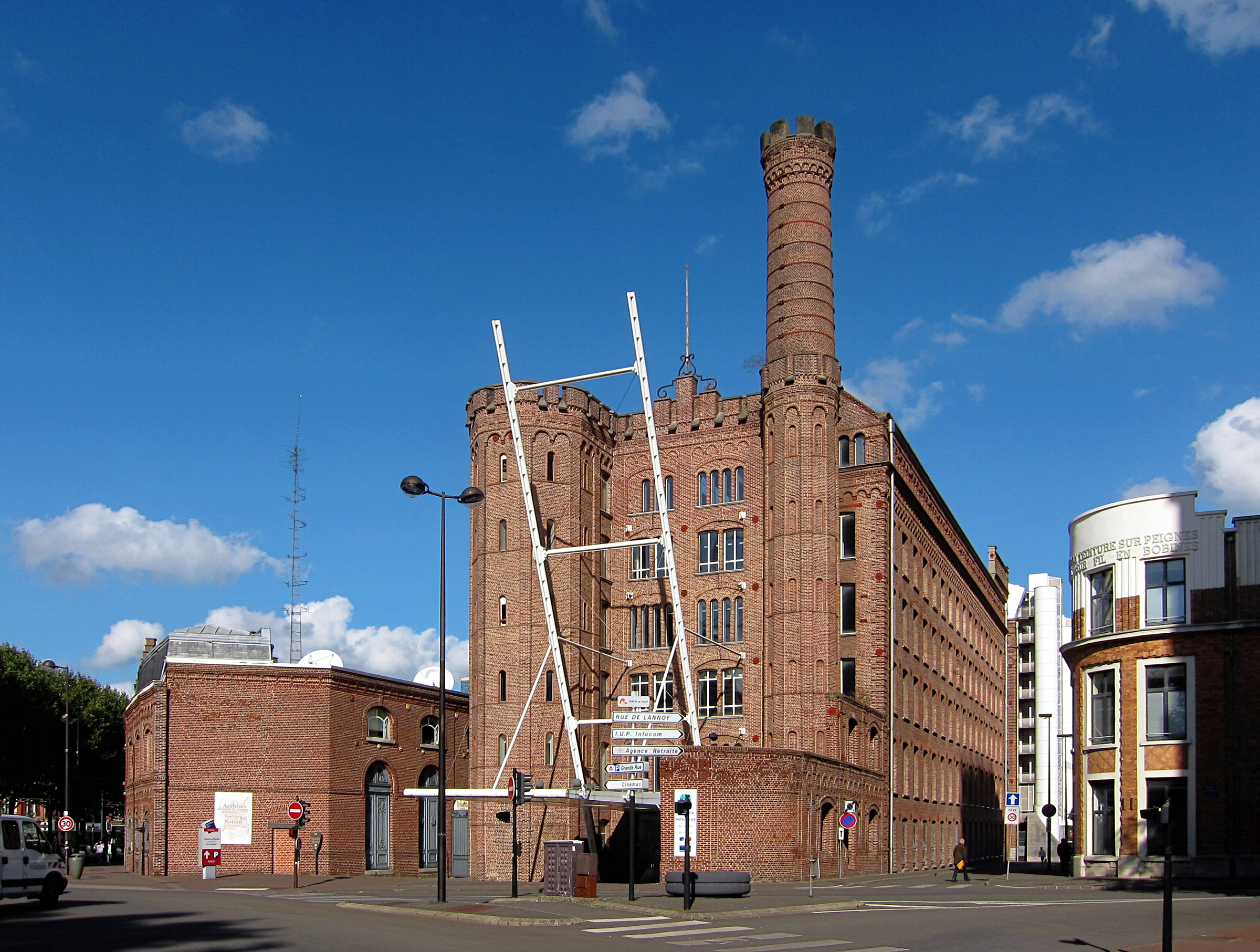 National Archives of the Working World in Roubaix, France